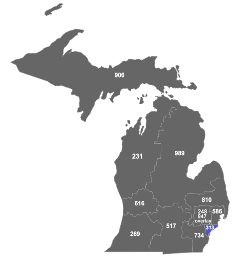 Area code map of Michigan highlighting the region covered by area code 313.